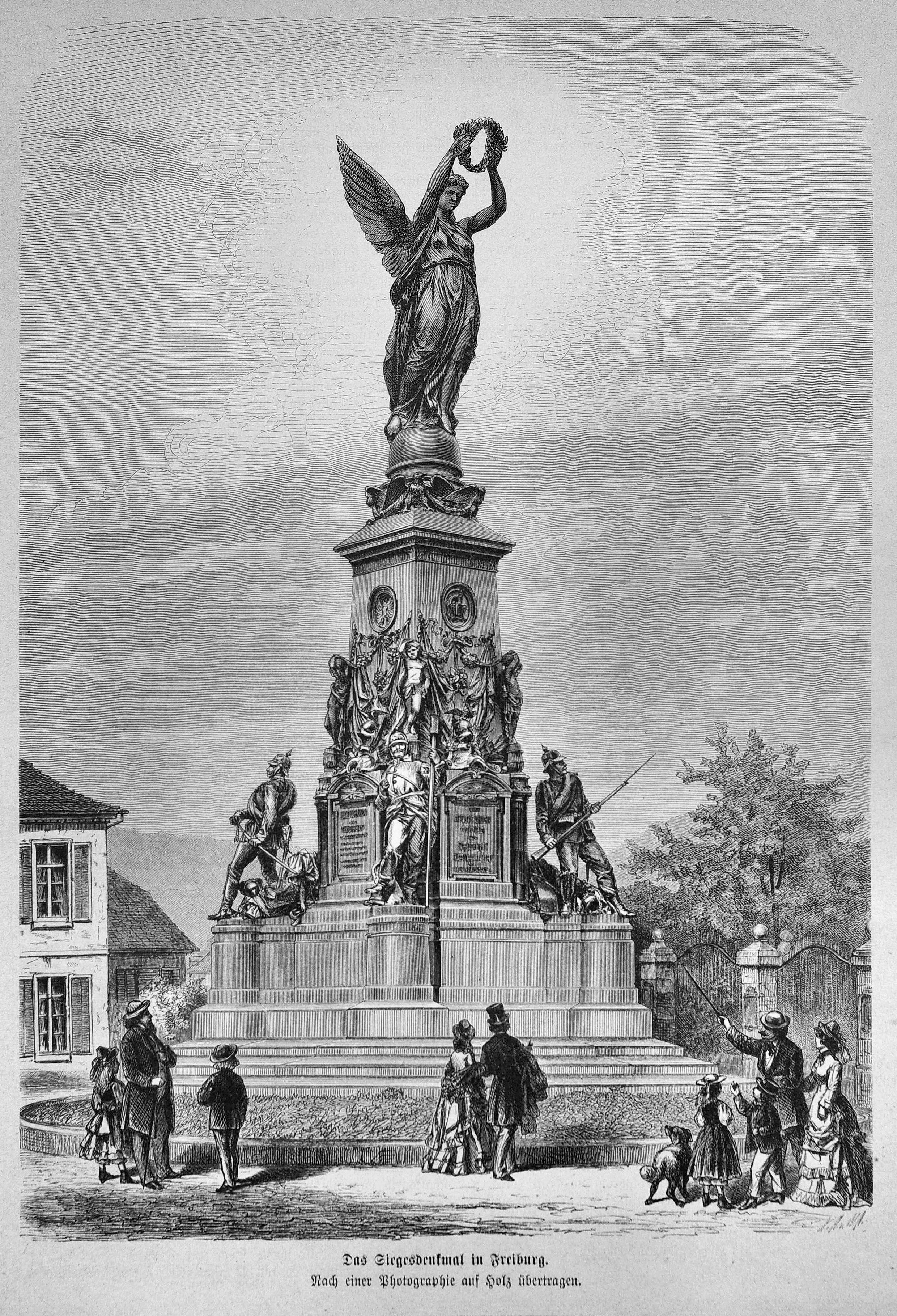 caption: "Das Siegesdenkmal in Freiburg. Nach einer Photographie auf Holz übertragen."